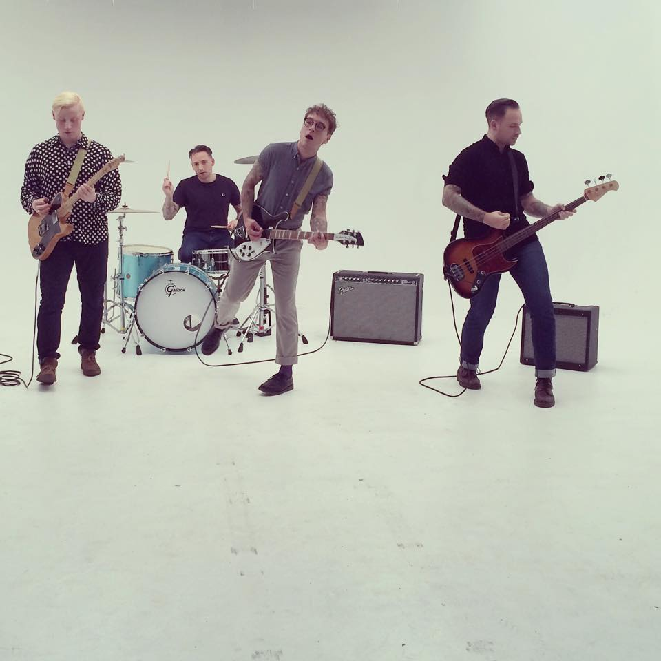 The Ordinary Boys performing